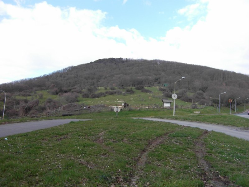 Allumiere,Lazio,Italy